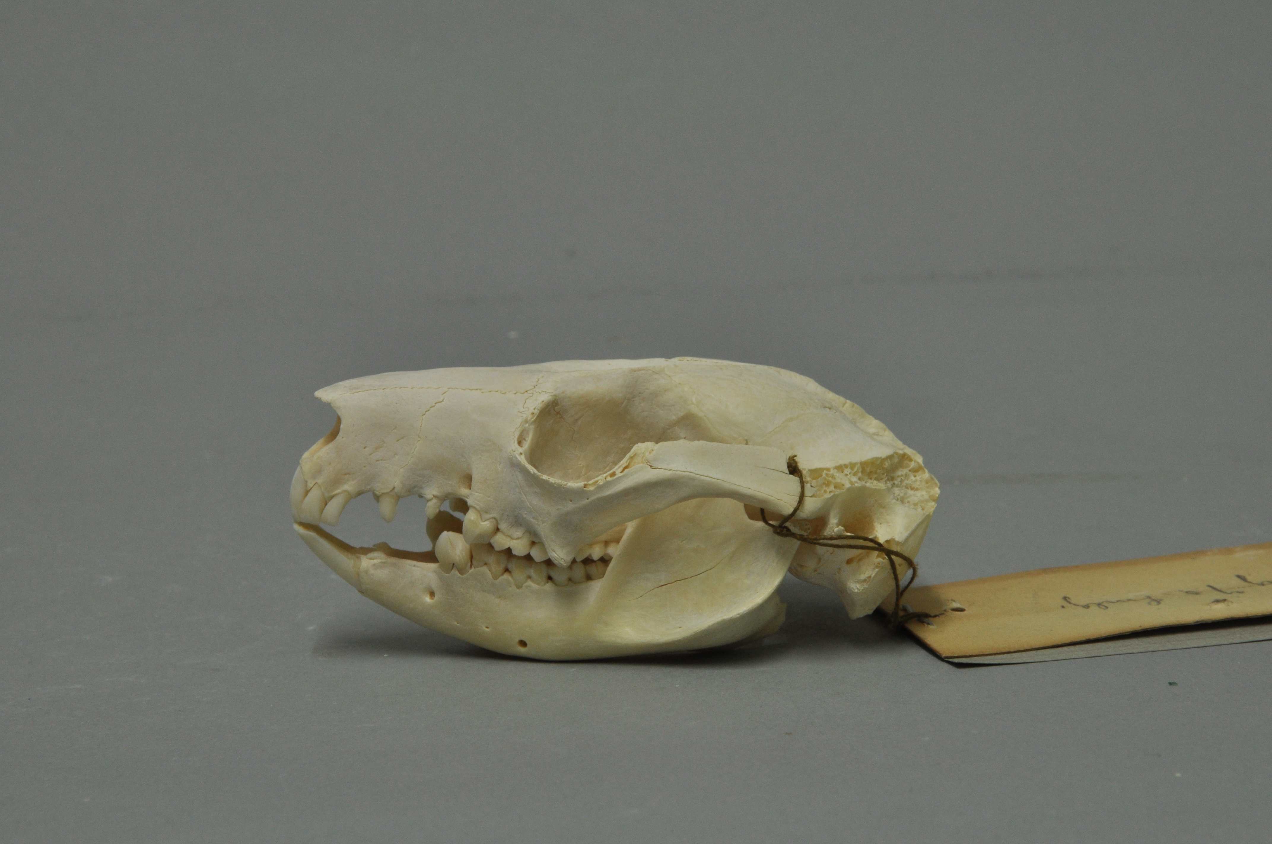 Common brushtail possumTrichosurus vulpecula , skull, Coll. Museum Wiesbaden